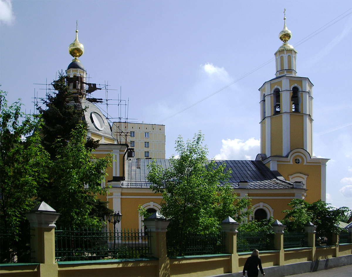 Church of all Saints in Sokol, Moscow. The leaning belltower is believed to be built in the first quarter of 18th century, main dome in the middle of 18th century, and expanded in 1886 and 1902-1903. For at least a century it was a home church of the Georgian kings in exile